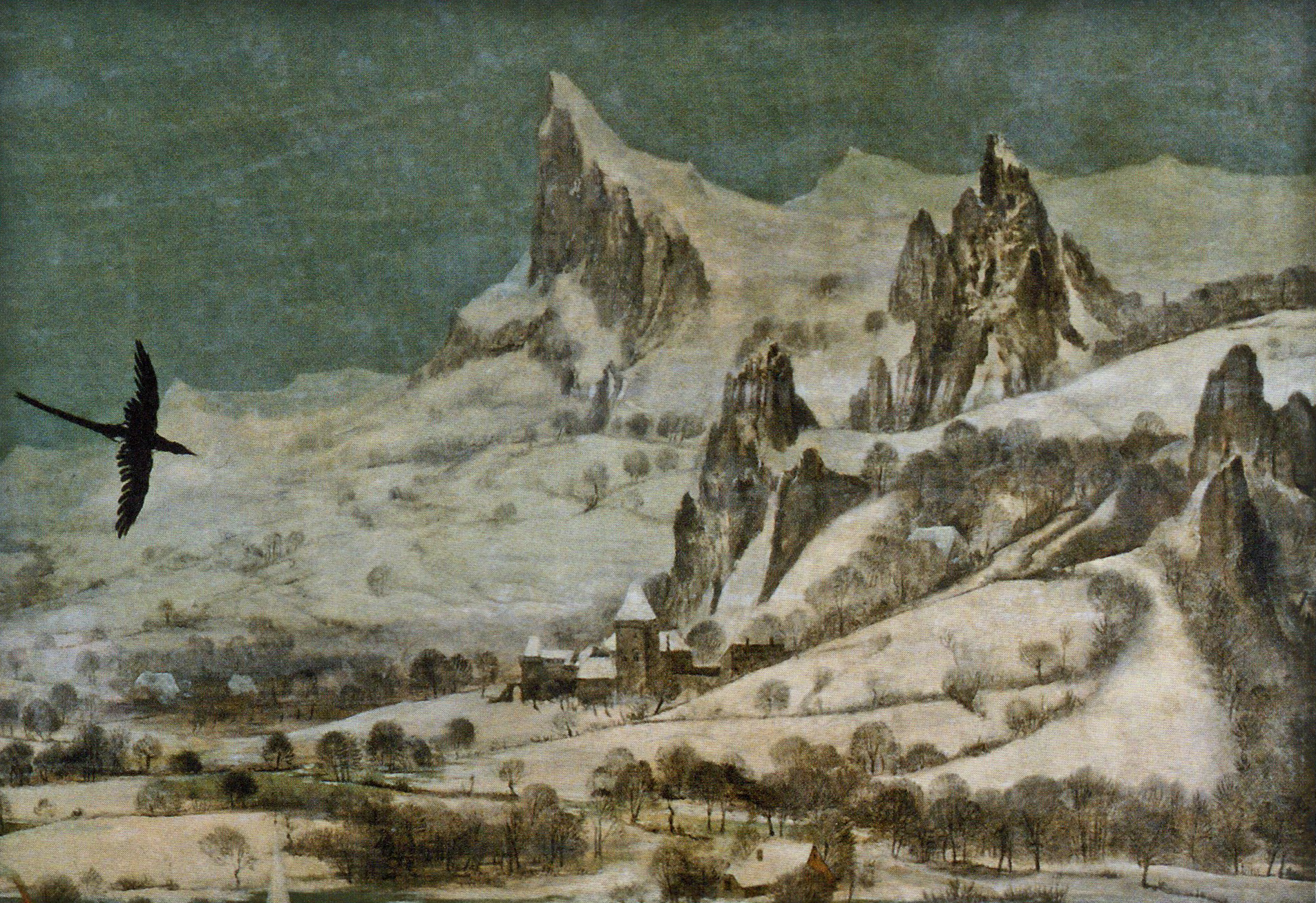 Mountains with village.